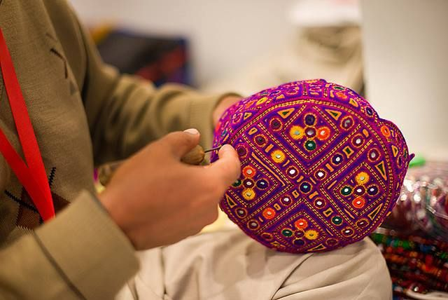 Ajrak detail on Handmade Sindhi Cap